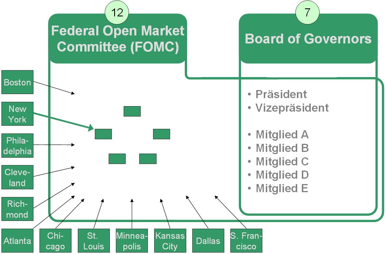 Federal Reserve - Board and Open Market Committee